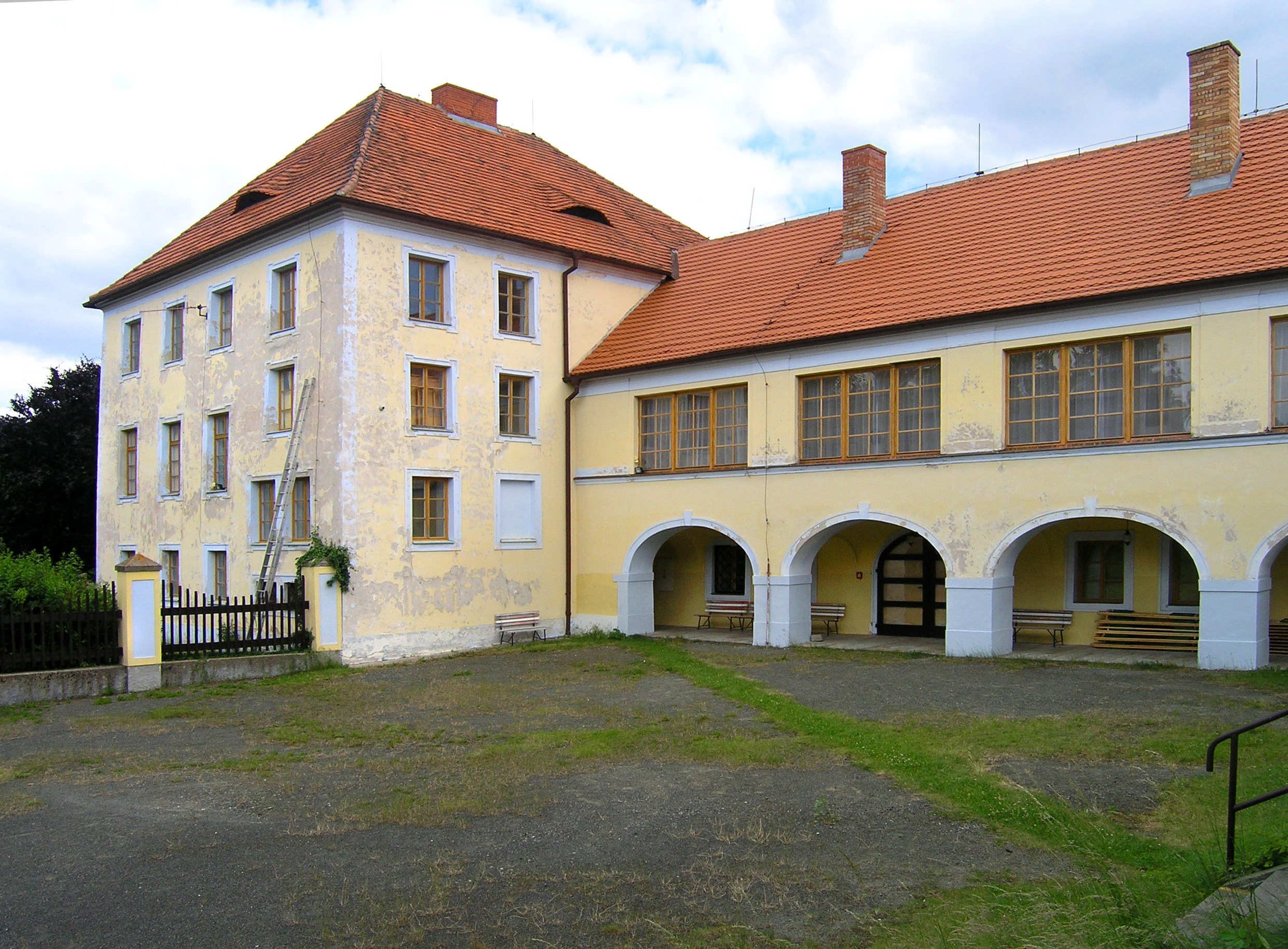 Růžkovy Lhotice Castle, Czech Republic